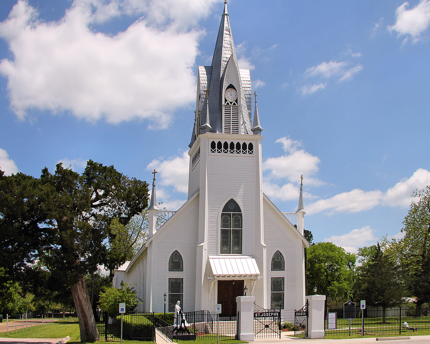 St. Joseph's Catholic Church, New Waverly, Texas, United States. The building was designated a Recorded Texas Historic Landmark in 1975.